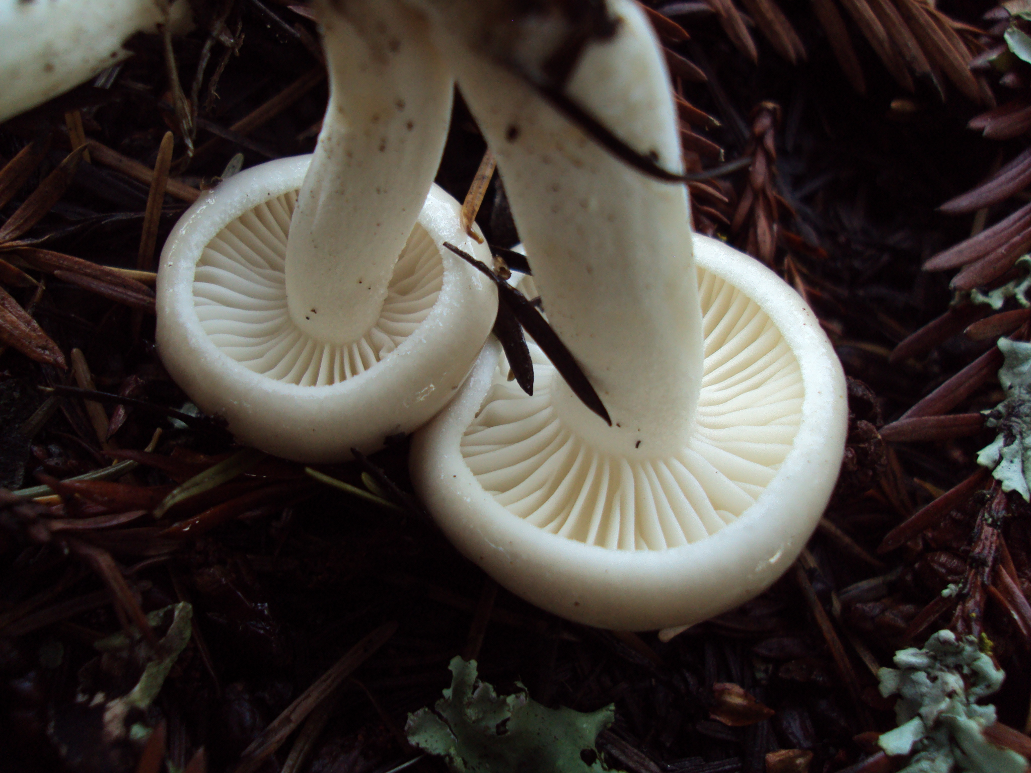 A view of the gills of the mushroom Hygrophorus agathosmus (Fr.) Fr. Specimens collected from Vollmer Peak, Orinda, Contra Costa Co., CA, USA.